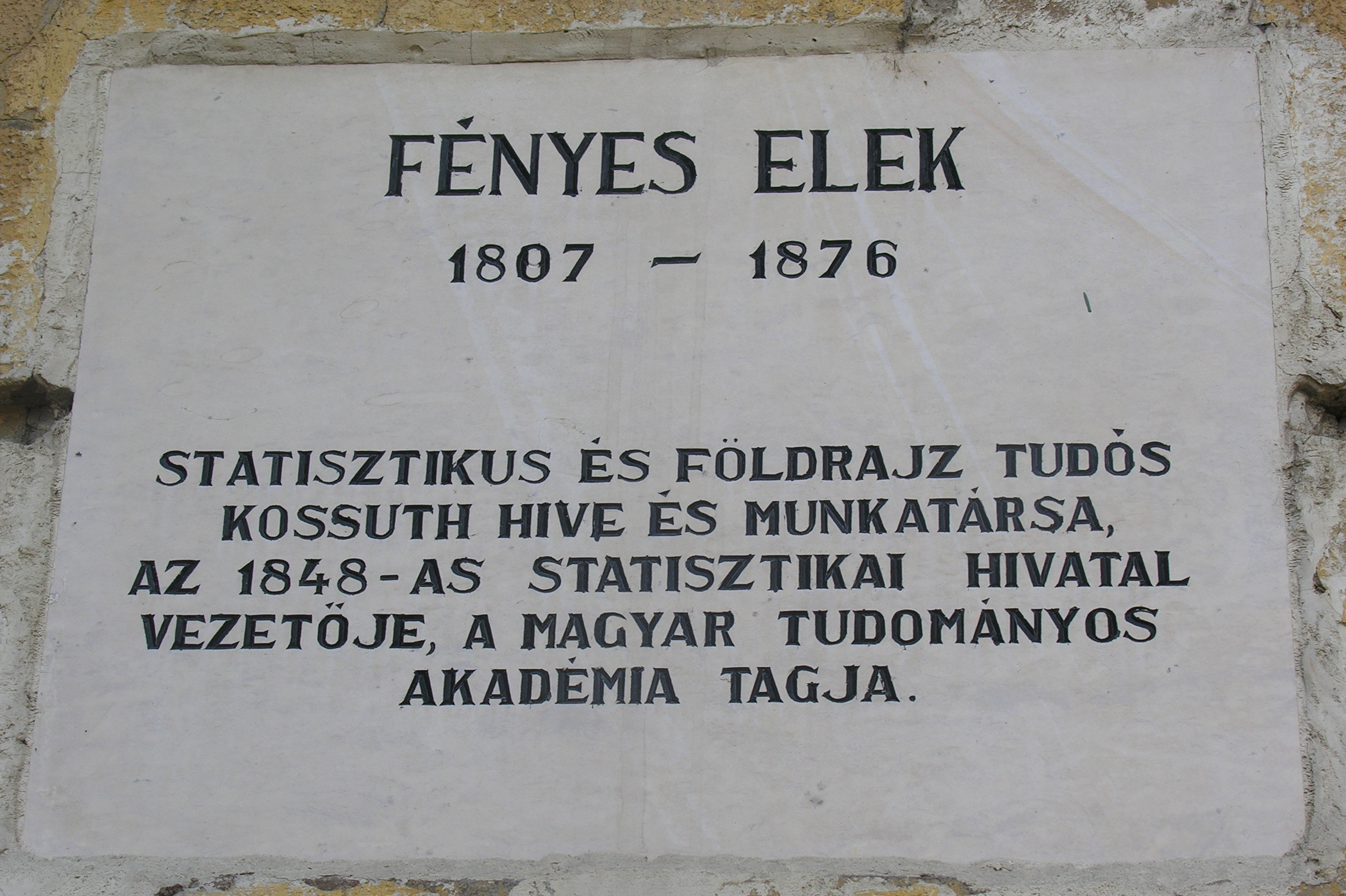 Commemorative plaque of Elek Fényes. Budapest District II, Fényes Elek Street No 20 (Keleti Károly Street corner).